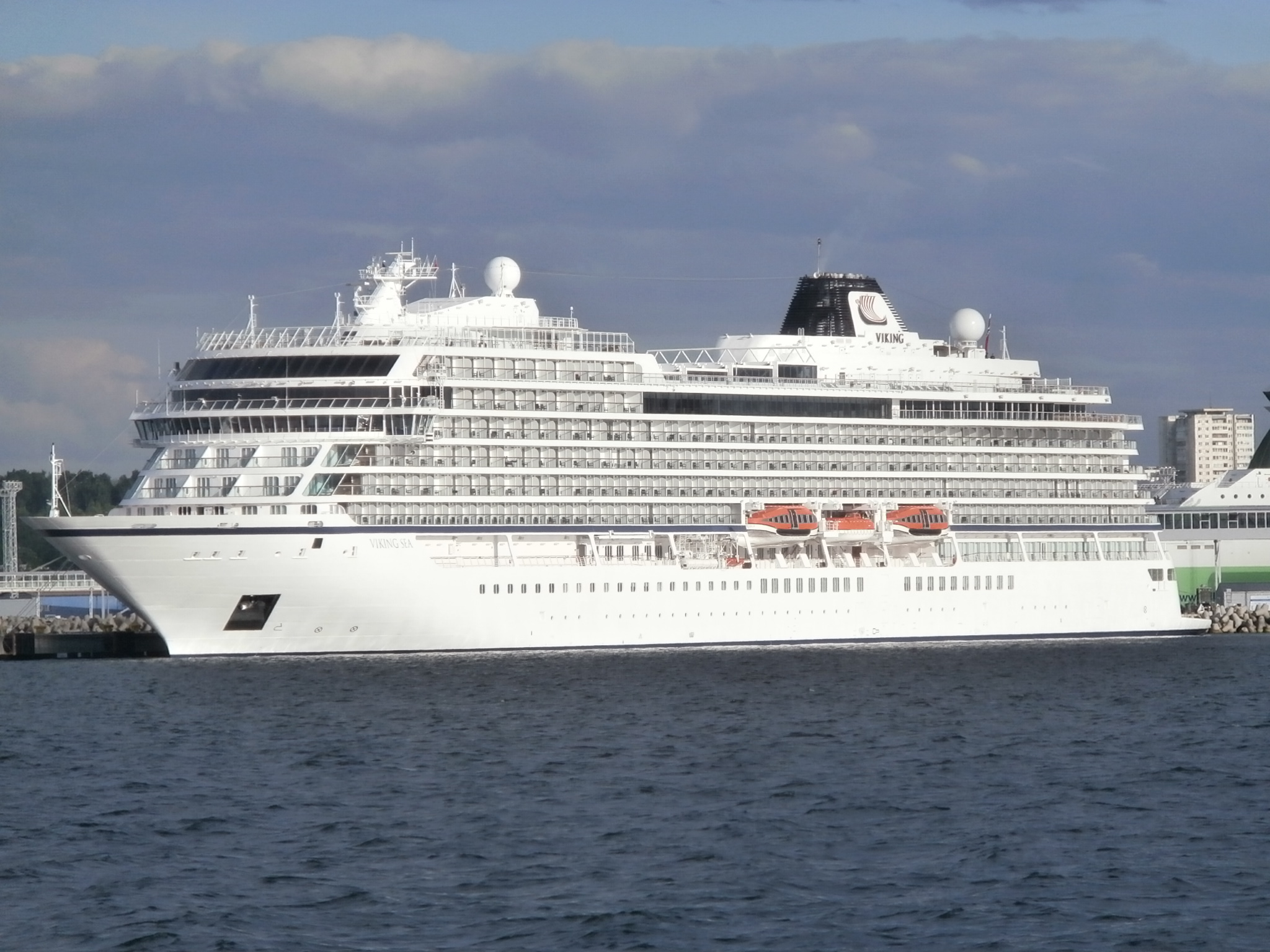 Viking Sea at pier 26 in Port of Tallinn 27 May 2016 (Star in the background)